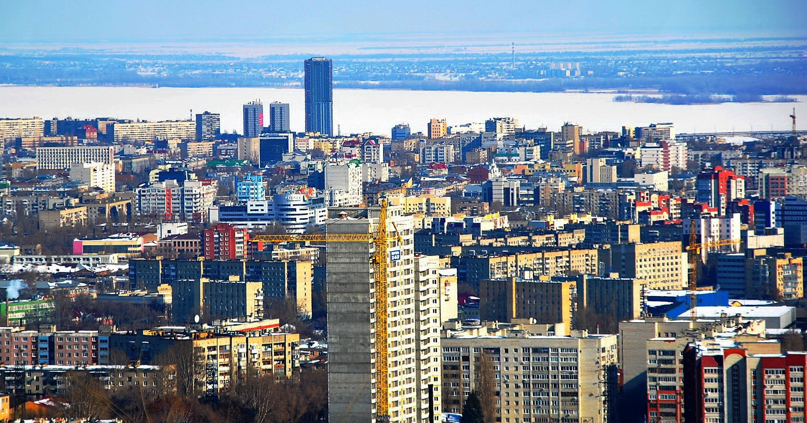 Panorama of Volzhsky District, Saratov